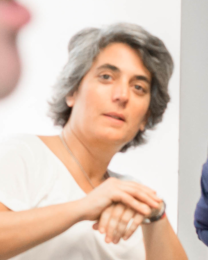 Author: Nuno Correia